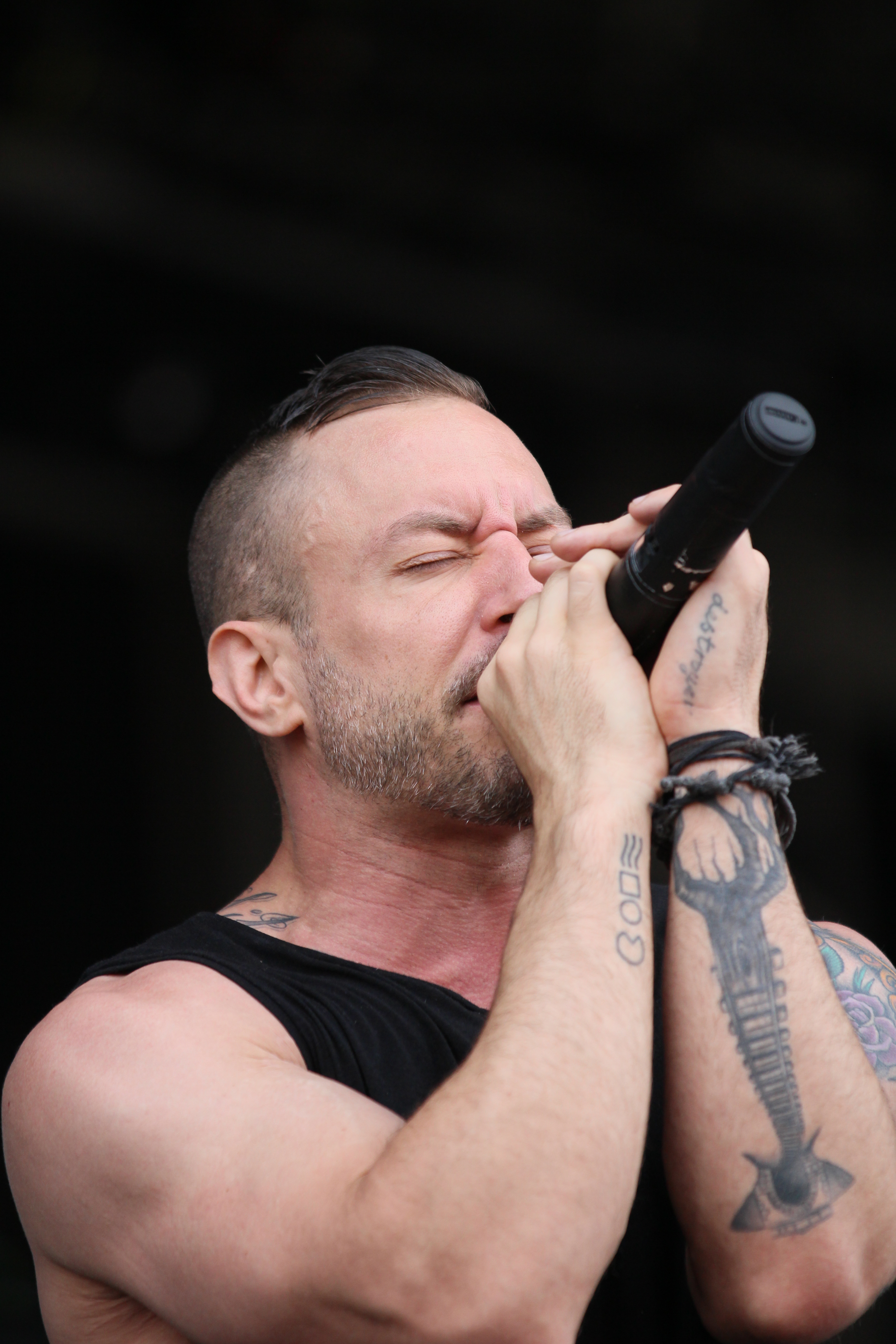 The American mathcore band The Dillinger Escape Plan at the With Full Force festival 2014 in Roitzschjora/Germany